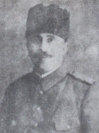 Muhiddin Pasha (Muhittin Akyüz)